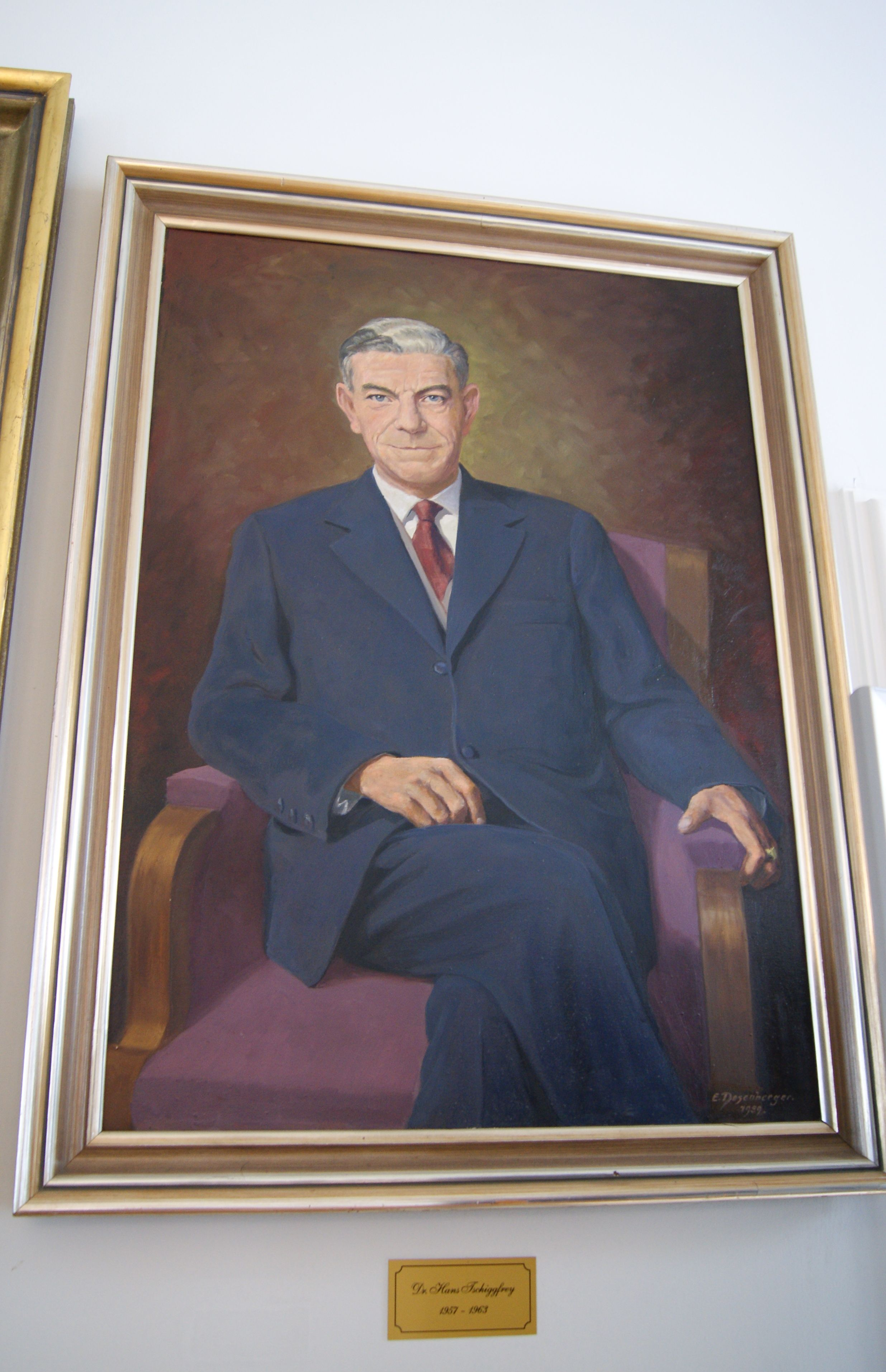 Hans Tschiggfrey, head of the Provincial Government and the authority in charge of indirect federal administration of Tyrol.